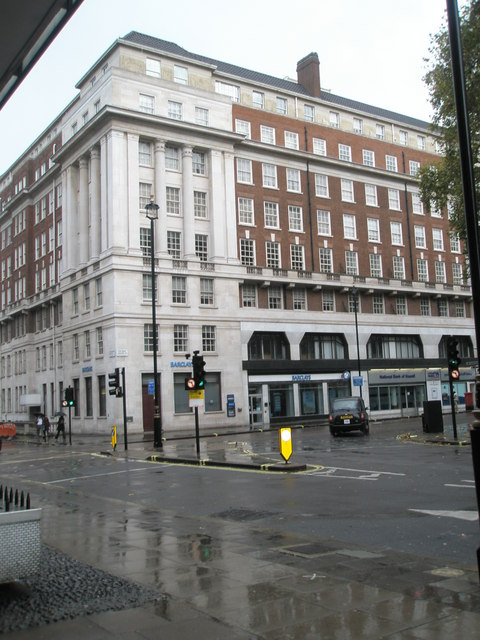 Barclays Bank in Portman Square